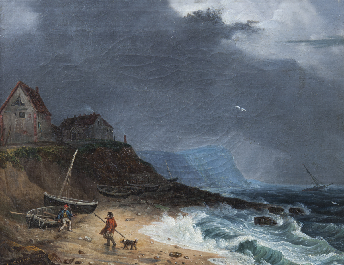 Catton the younger, Charles; Sheringham Beach, Norfolk; National Trust, Felbrigg Hall